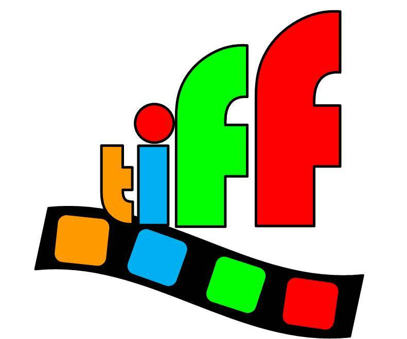 The logo of Tigerland India Film Festival consists of all four primary colours, symbolising the need for contribution of all to create a balance & harmony in nature